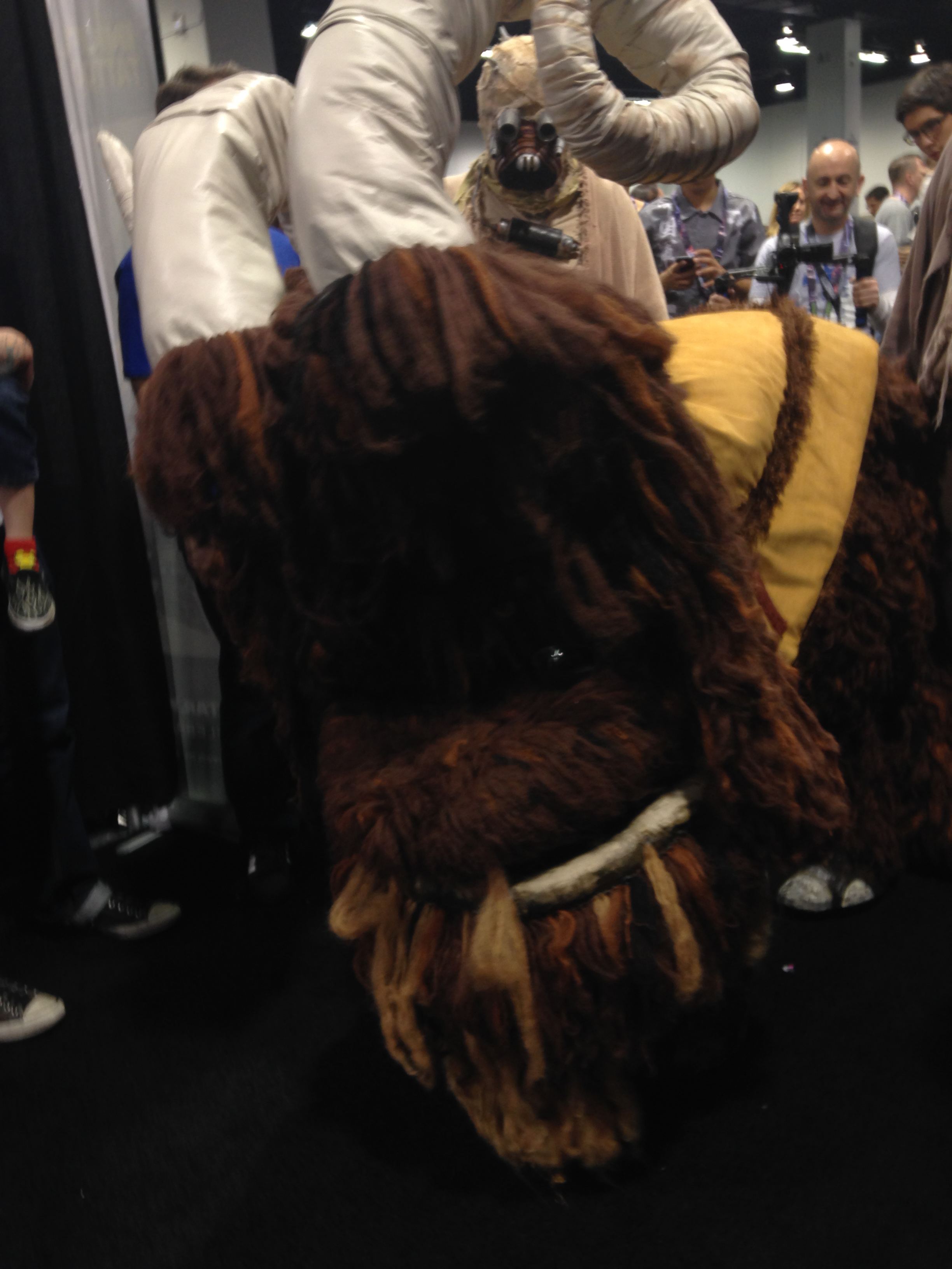 Celebration Cosplay - Bantha Star Wars Celebration in Anaheim, April 2015.